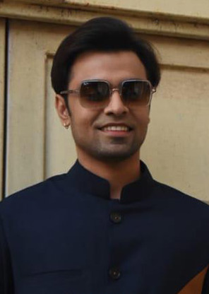 Jitendra Kumar promoting Shubh Mangal Zyada Savdhaan, 2020